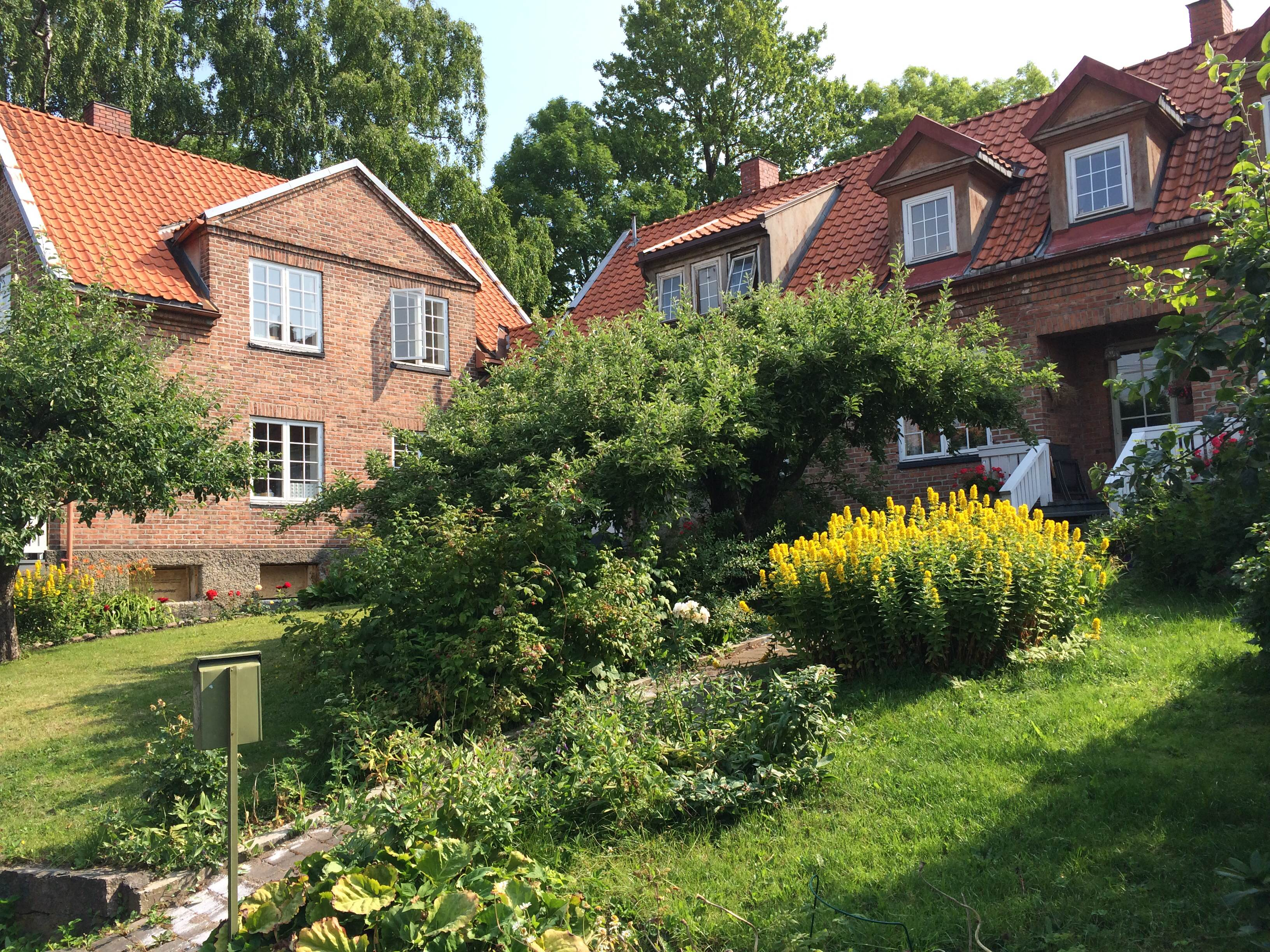 Hasle hageby